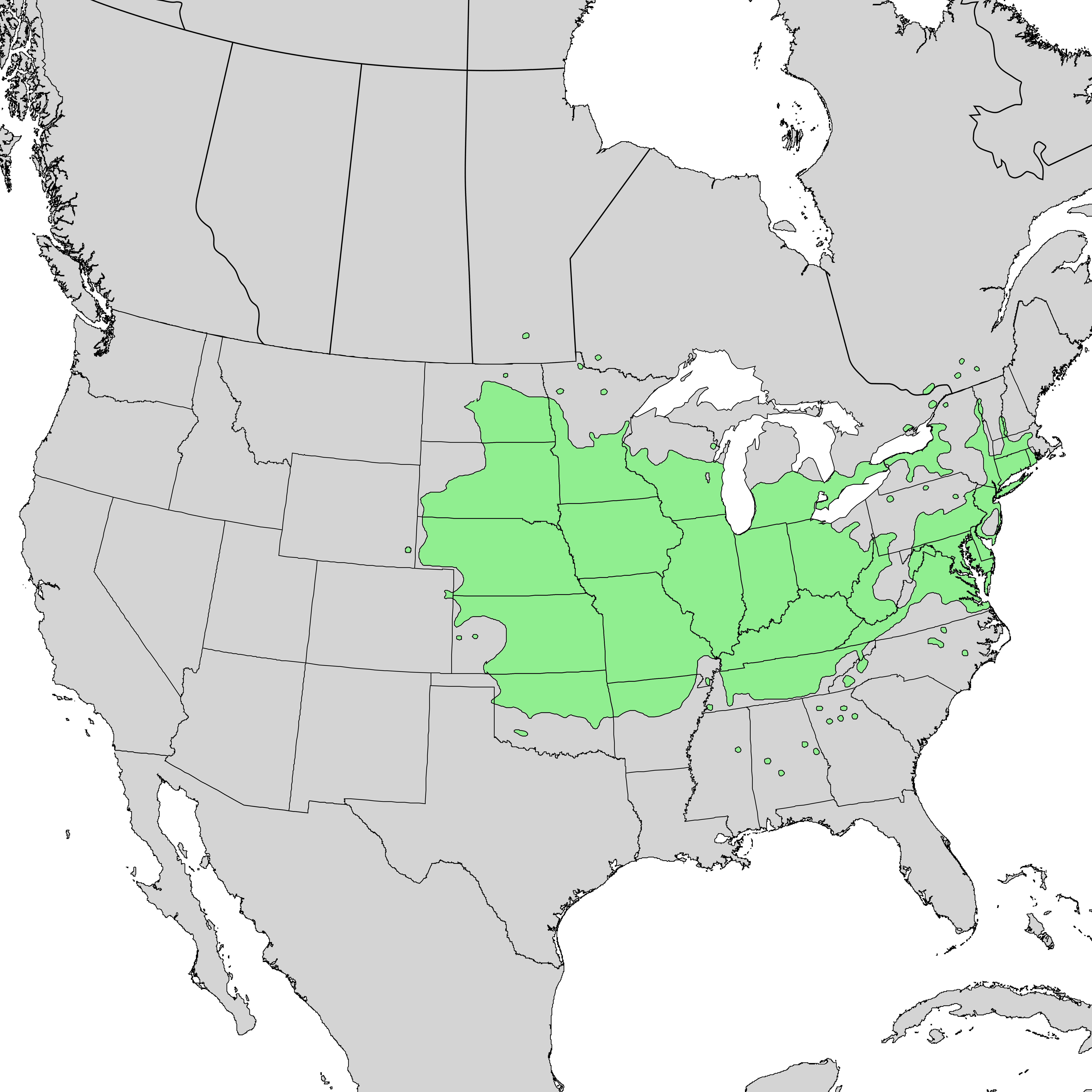 Natural distribution map for Celtis occidentalis